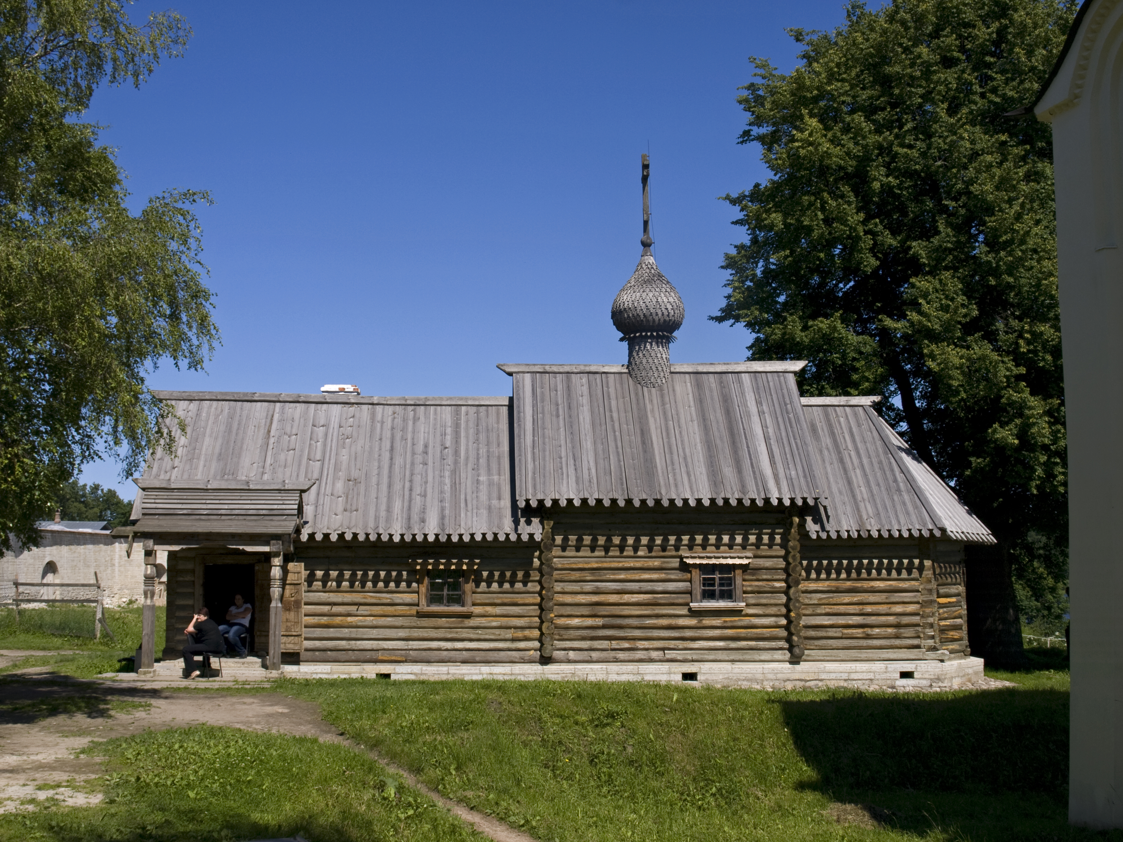 Church of St. Demetrius of Thessaloniki, Staraya Ladoga (1620s). The architecture monument of the federal significance #4710025008